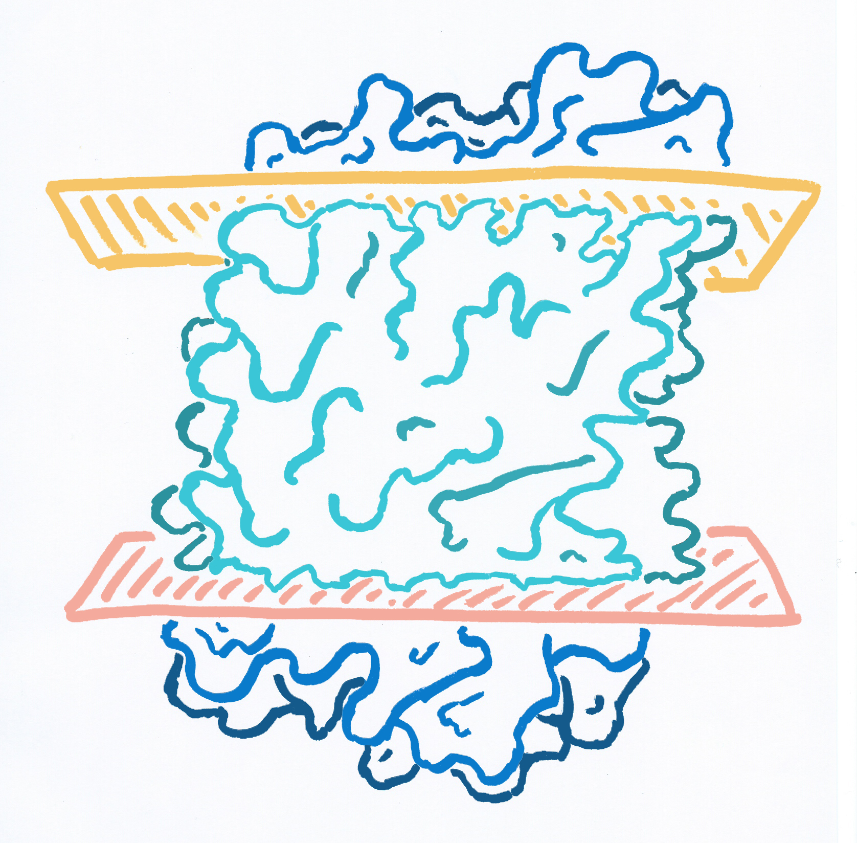 Tertiary structure surface model of Archaerhodopsin.